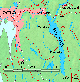 DEMIS World Map Server generated this map from Public Domain sources. DEMIS does not claim any rights over the resultant image ([1]). Captions for towns and lakes added by User:TheGrappler, the uploader.